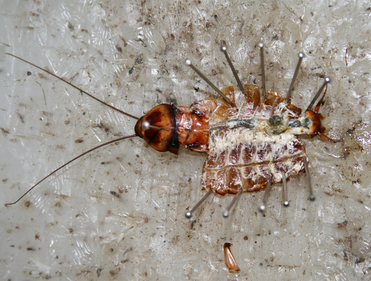 A vivisection of an American Cockroach, Periplaneta americana